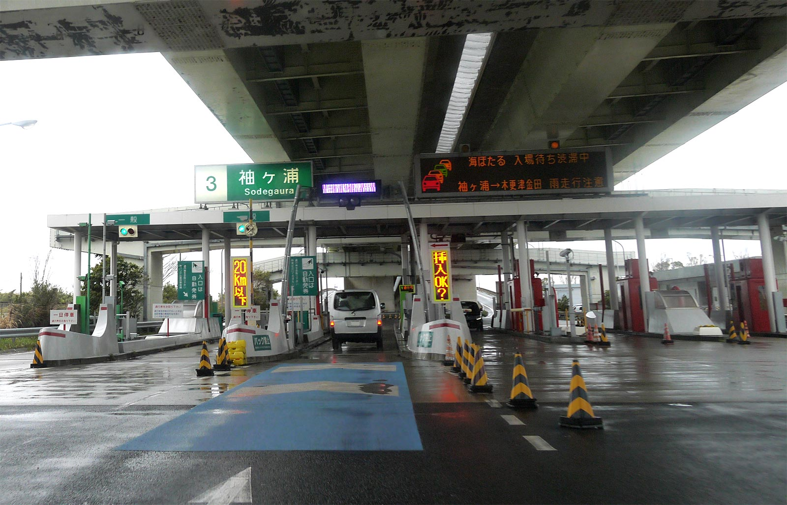 Aqua Contact line Sodegaura-IC in Chiba, Janan